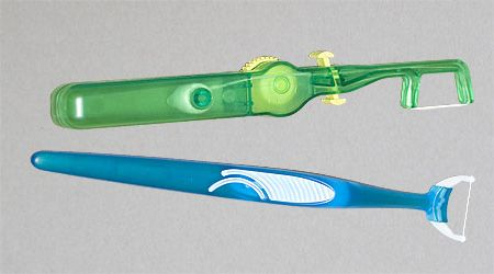 Hand-held dental floss is usually delivered in a device that allows flossing without introducing the fingers in the oral cavity. The hand-held flosses have an F-shaped or Y- shaped cross-section handle with or without the housing for the floss supply. F-shaped device have the floss positioned parallel to the handle axis. Y-shaped devices position the floss perpendicular to the handle axis.